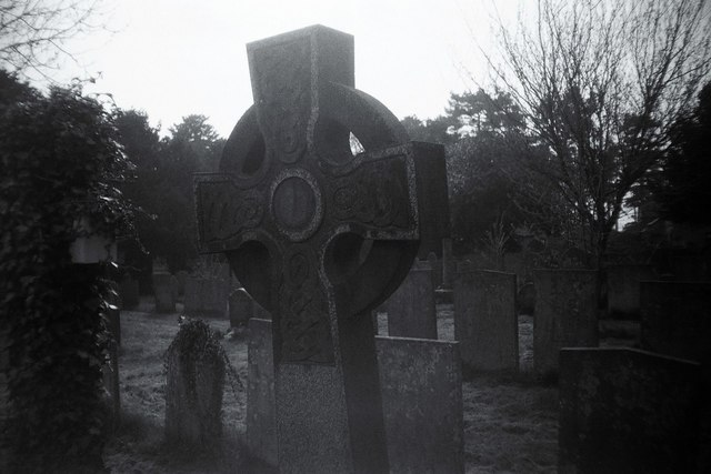 Celtic Type Cross, Laxton Churchyard. Not far from this spot is a table tomb with a hole in the ivy cladding. I was told, as a child, that a ghostly hand will reach out and touch you should you put your hand inside...I refrained.